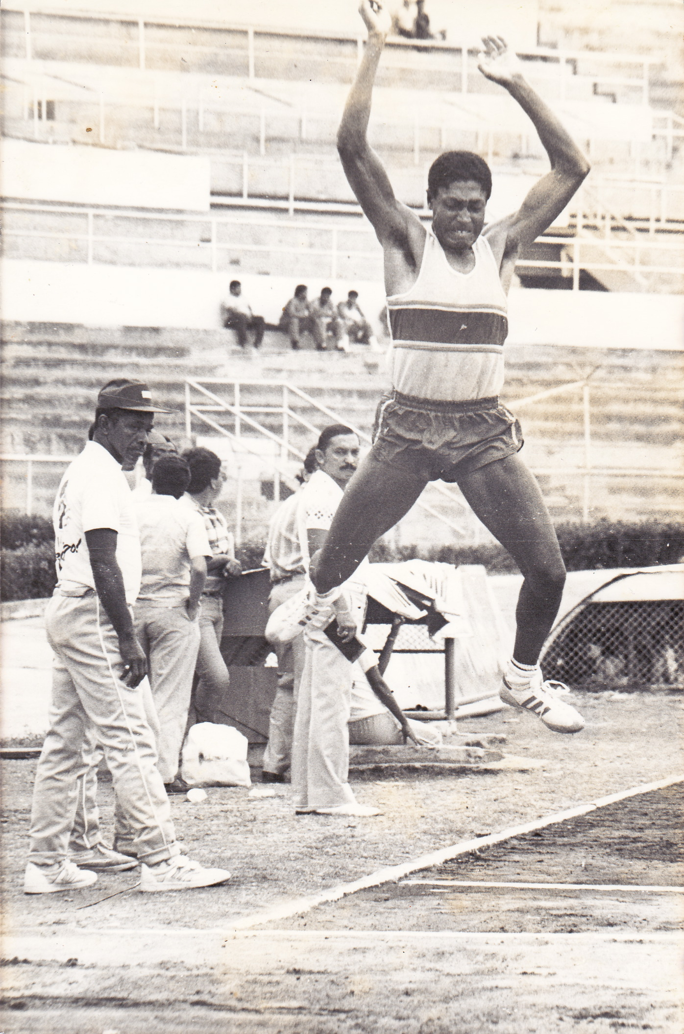 National Championships, Equador, 1987